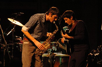 Sound Club, Bologna, Guglielmo Pagnozzi (left) saxohone and Lazzaro Piccolo guitar; afro, funky.